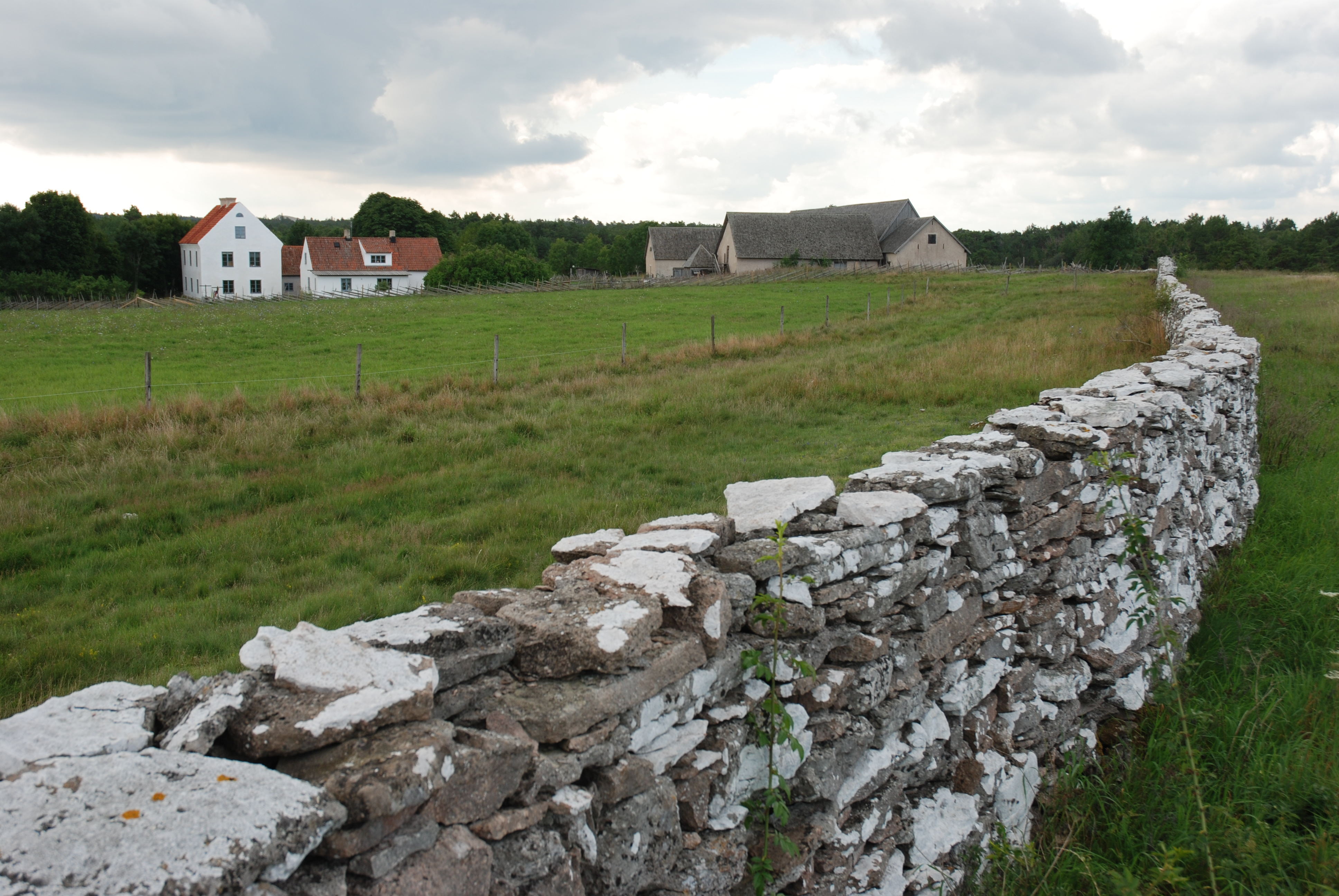 Hau, a farm in Fleringe socken, Gotland Sweden, 19th century buildnings